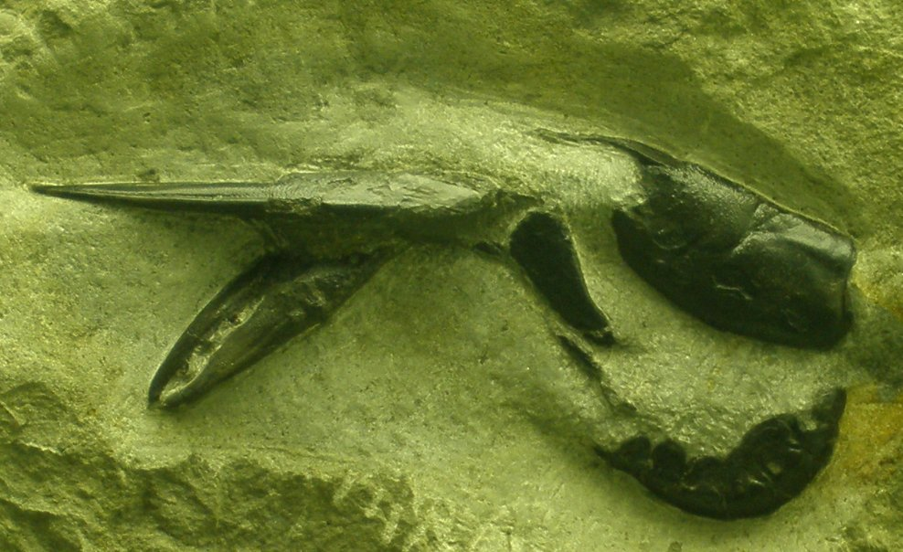 Took the photo at Museo di Storia Naturale di Milano